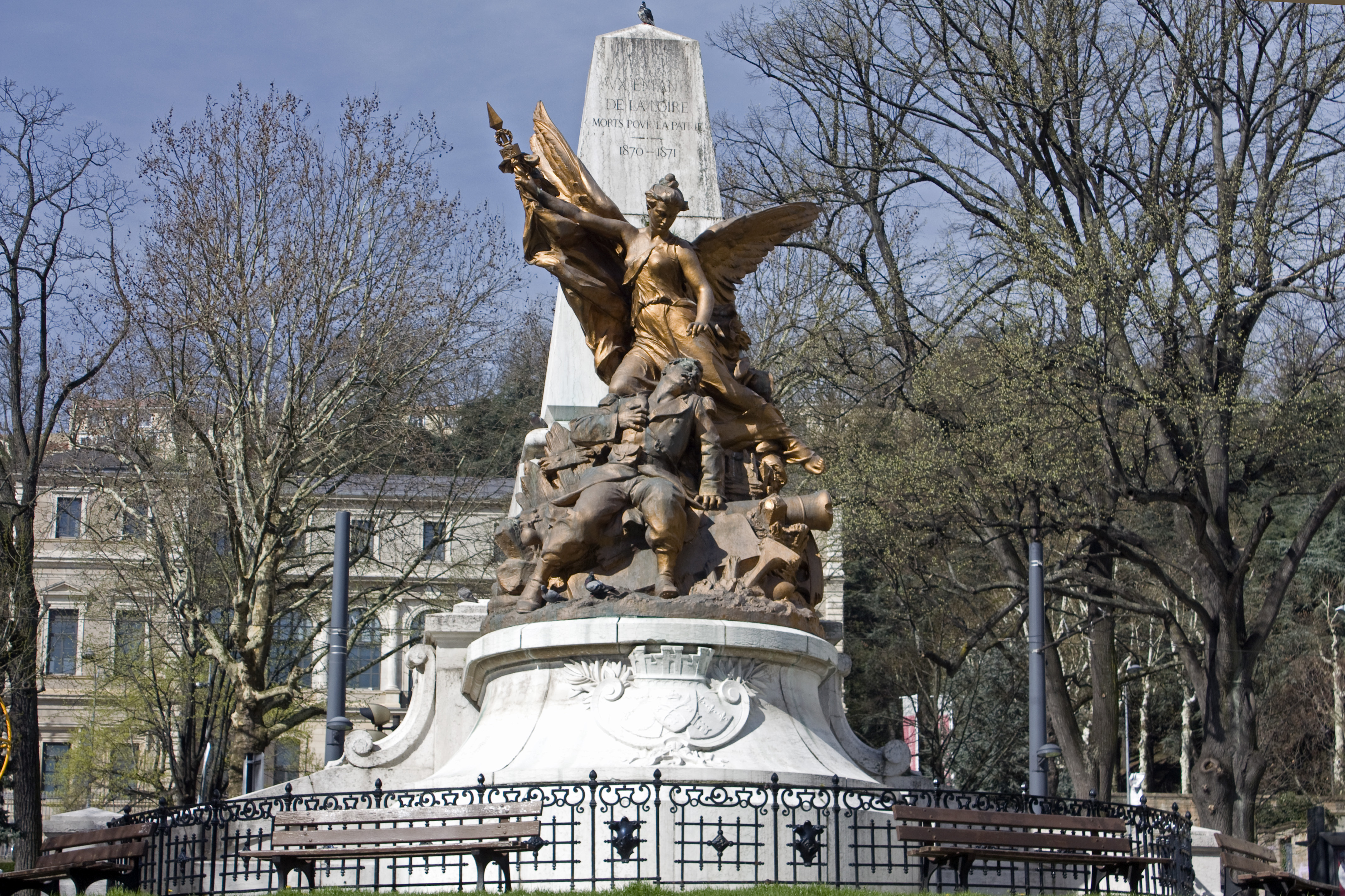 Memorial of the Franco-Prussian War (1870-1871). Cast brass gilded iron, like all the statues in the Square Jovin bouchet and the Place Louis Comte.